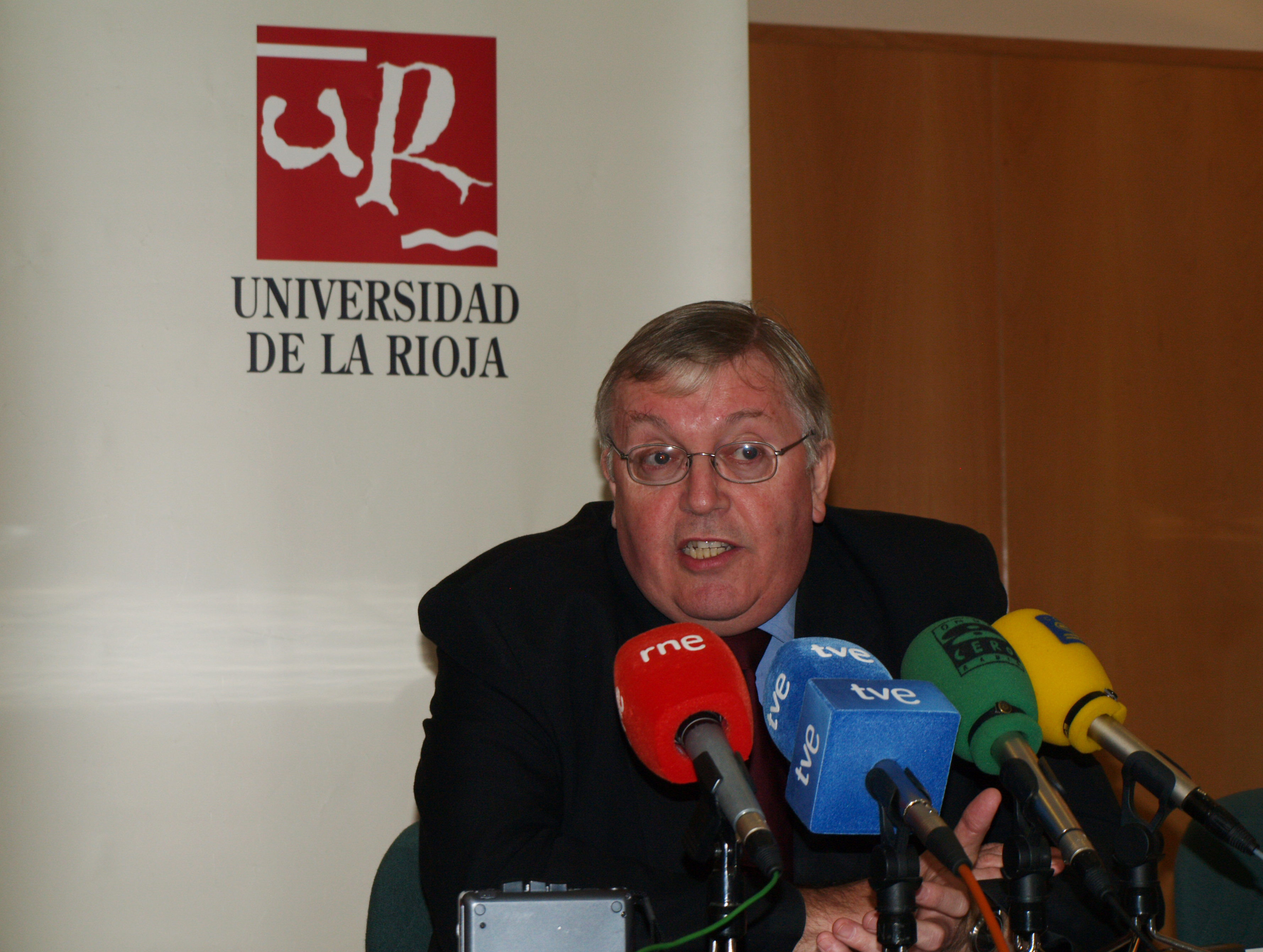 The historian and Hispanist Paul Preston in the University of La Rioja.